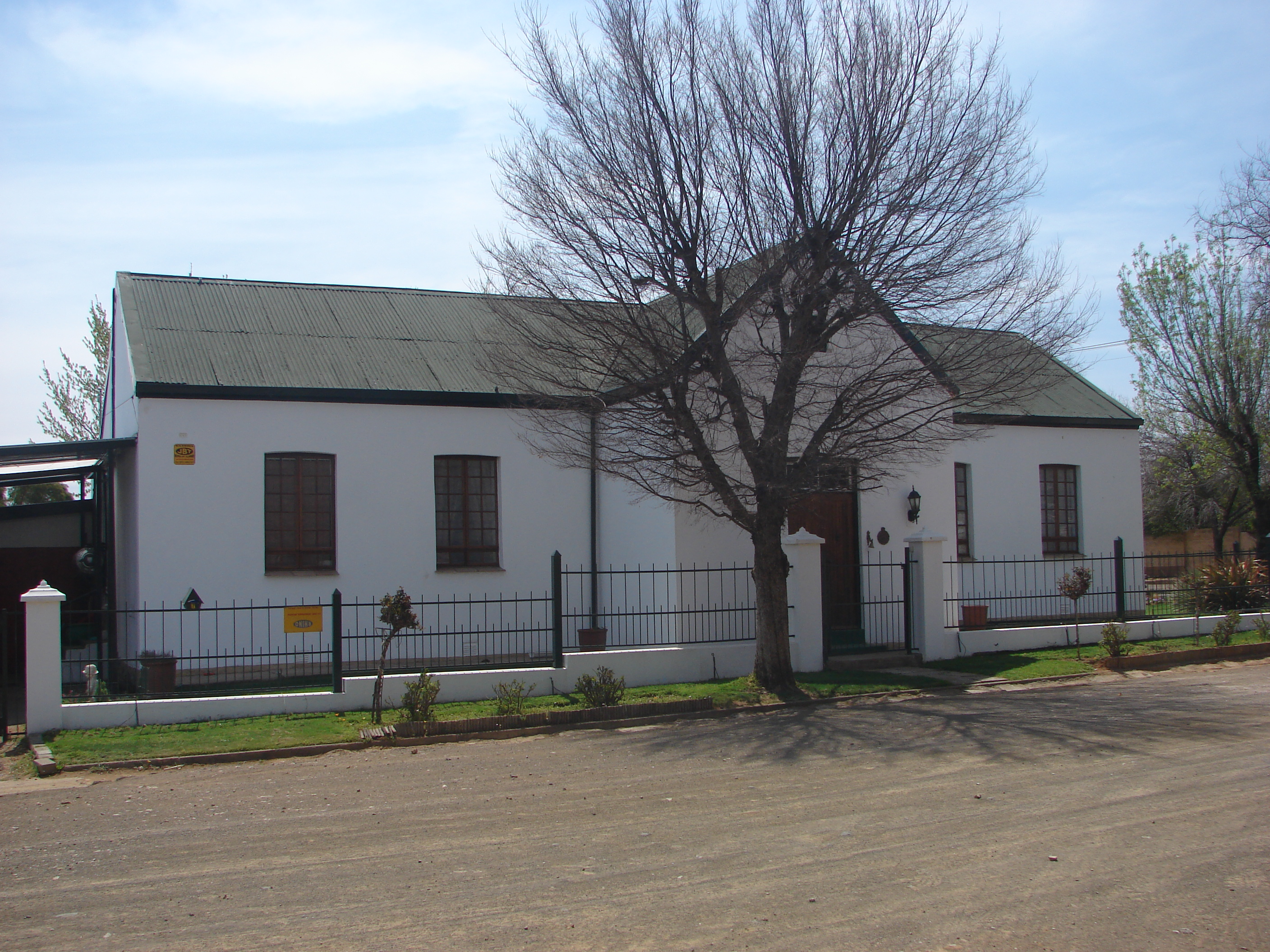 Old CNO school, 7 Stewie Joubert Street, Redderburg This media shows a South African Protected Site with SAHRA file reference 9/2/332/0003.